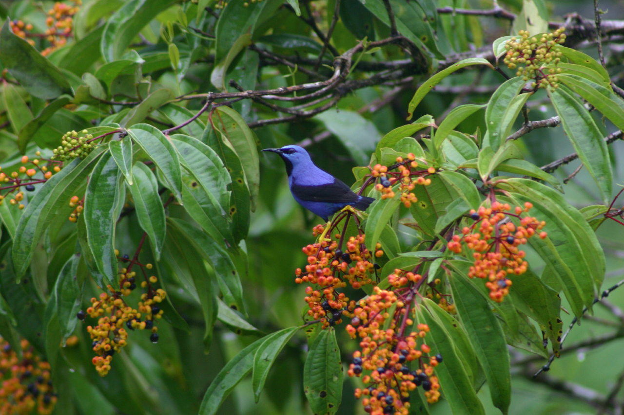 A photograph of a Shining Honeycreeper (Cyanerpes lucidus) perched in La Selva Biological Station.